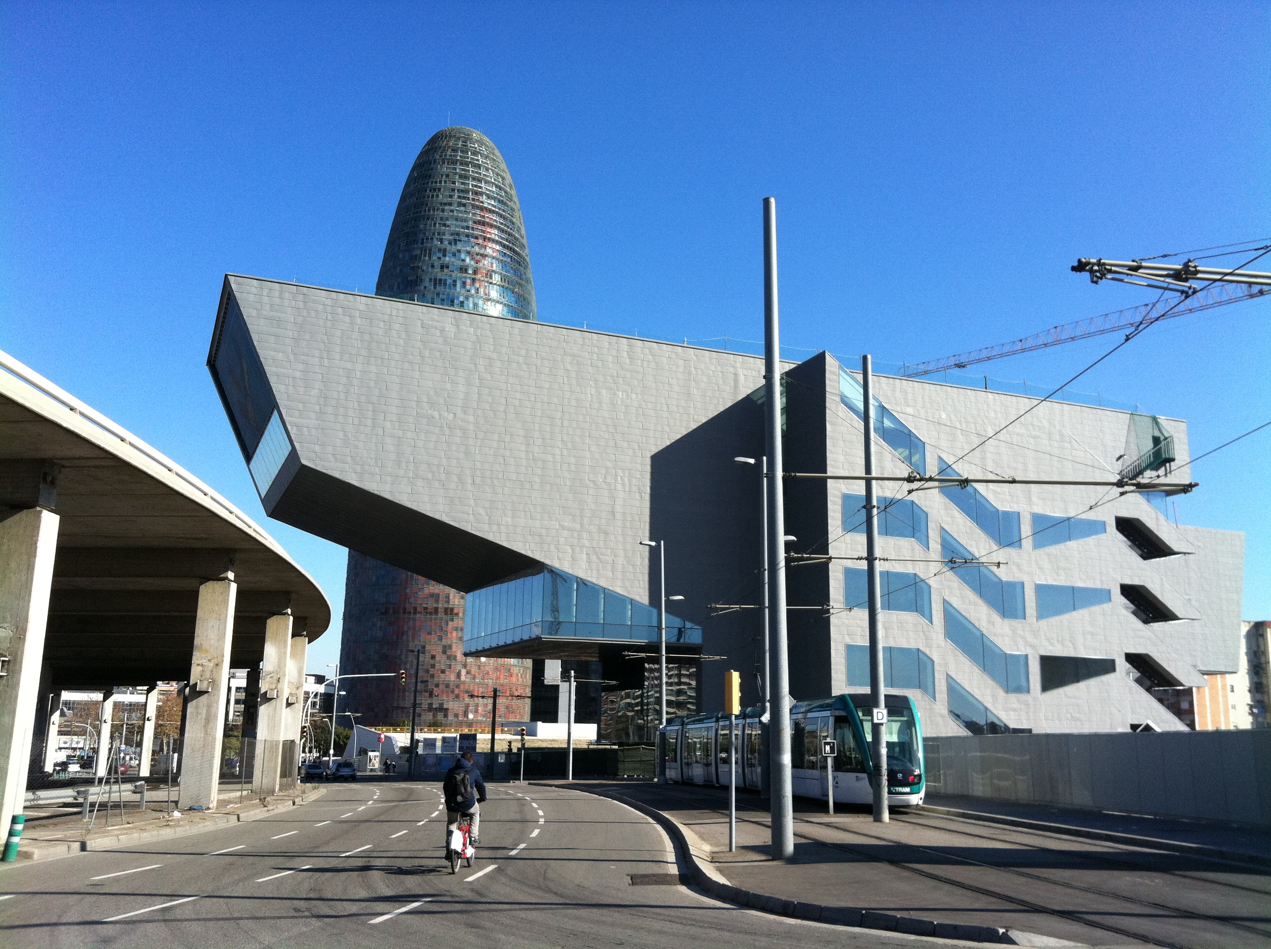 Building process of Disseny Hub Barcelona building. Jan 2012